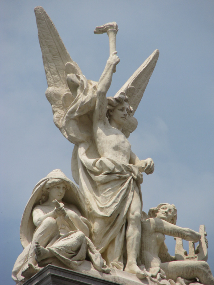 The Genius with the torch on top of the Slovenian National Opera and Ballet Theatre